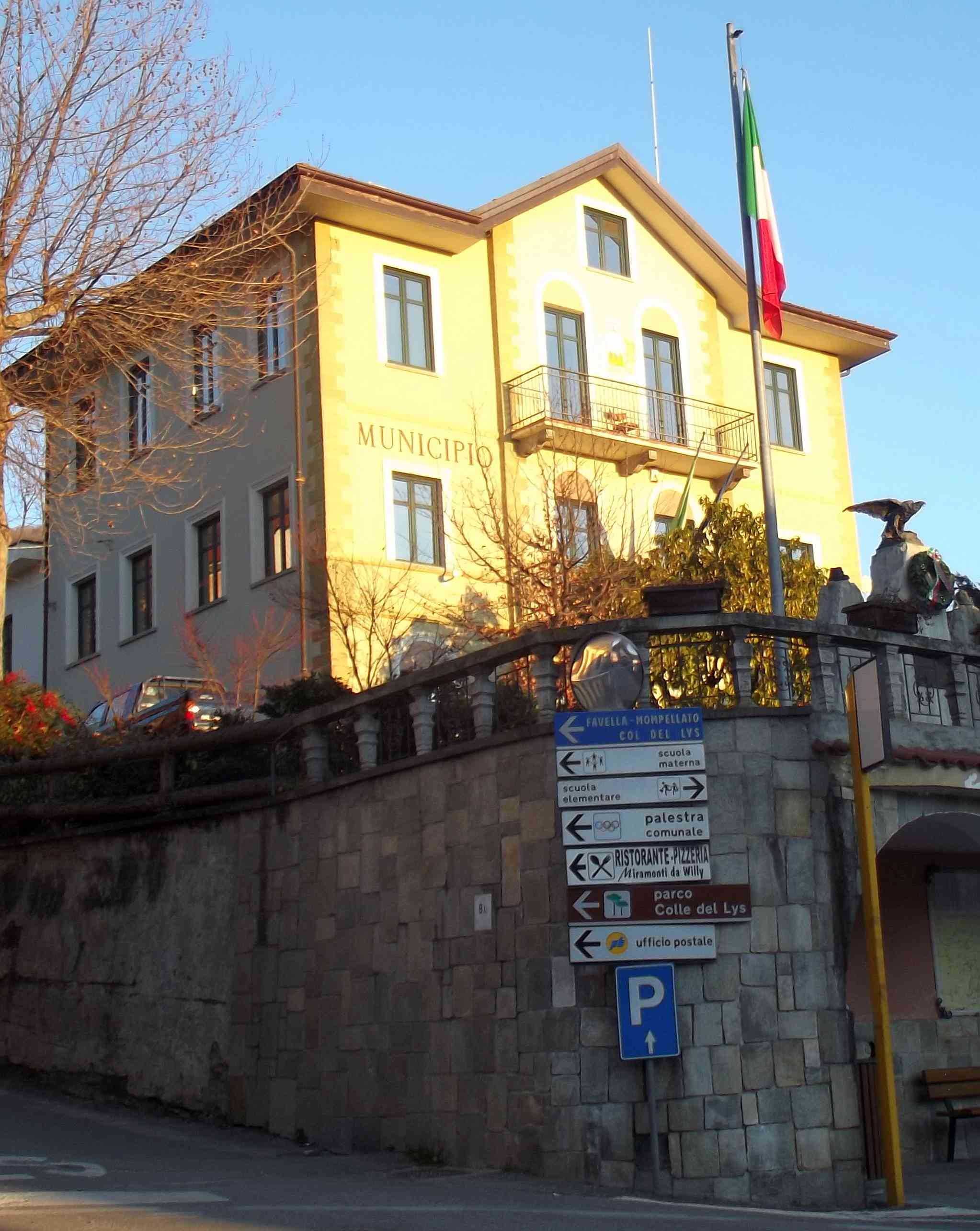 Rubiana (TO, Italy): town hall